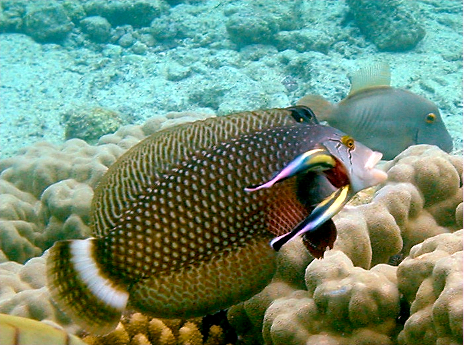 Cleaners got inside of a gill Photograped by Brocken Inaglory in Kona, Hawaii